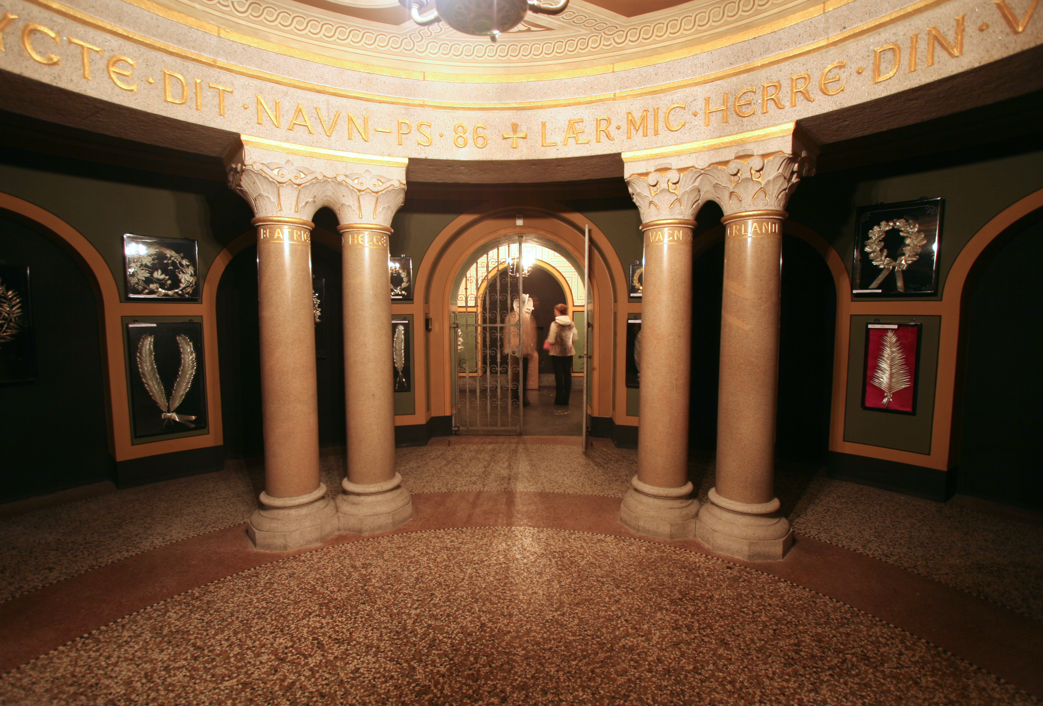 Jesuskirken, Valby, Copenhagen, Denmark Antechamber to the crypt.